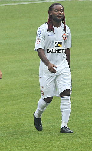 Vágner Love